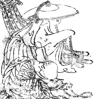 Nyūbachibō (乳鉢坊, a Mortar monster) from the Hyakki Tsurezure Bukuro (百器徒然袋)